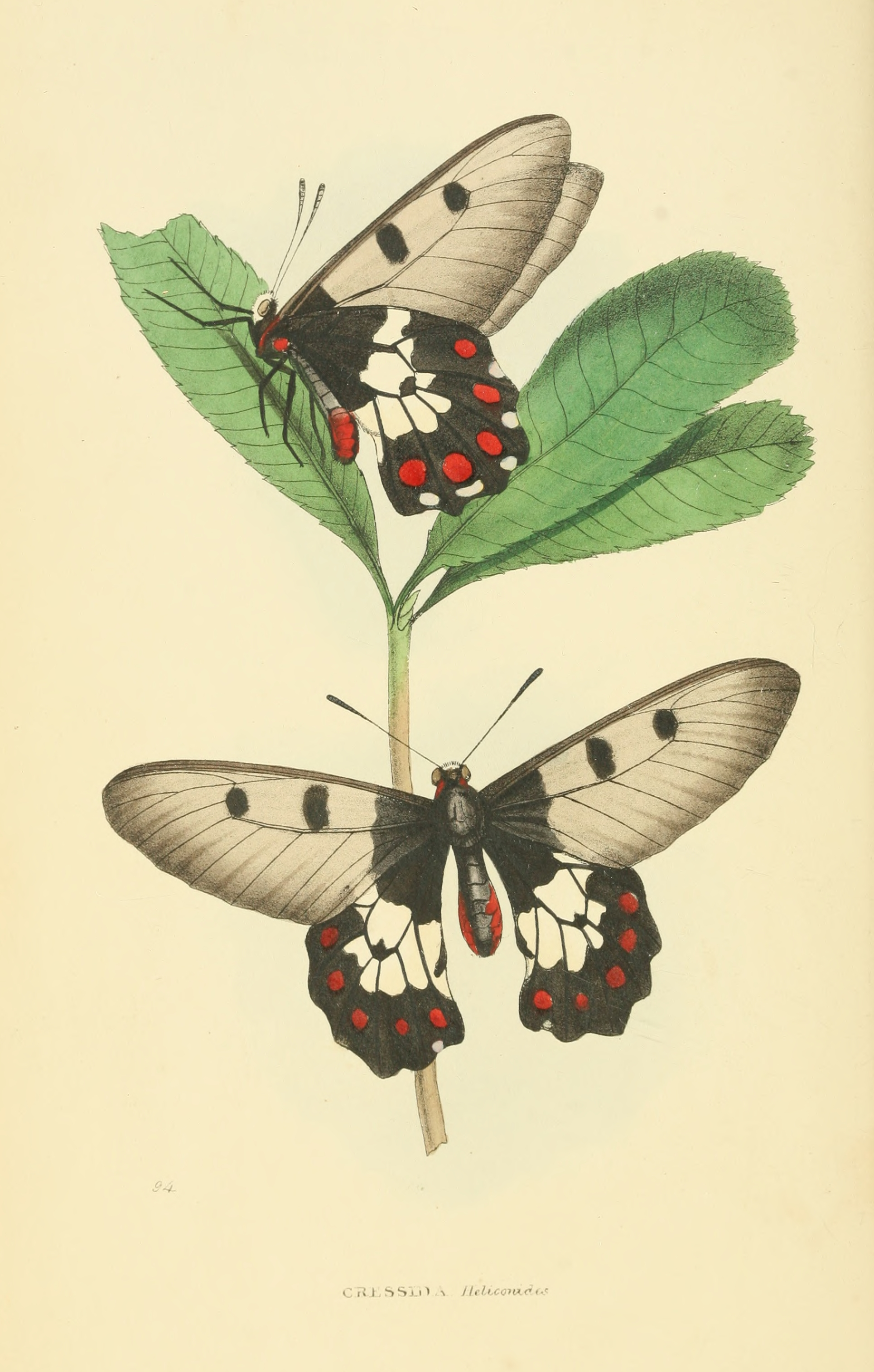 Plate from Zoological illustrations, Volume 3, 2nd series. Cressida Heliconides Sw. = Papilio Cressida Fabr. Accepted as Cressida cressida[1]